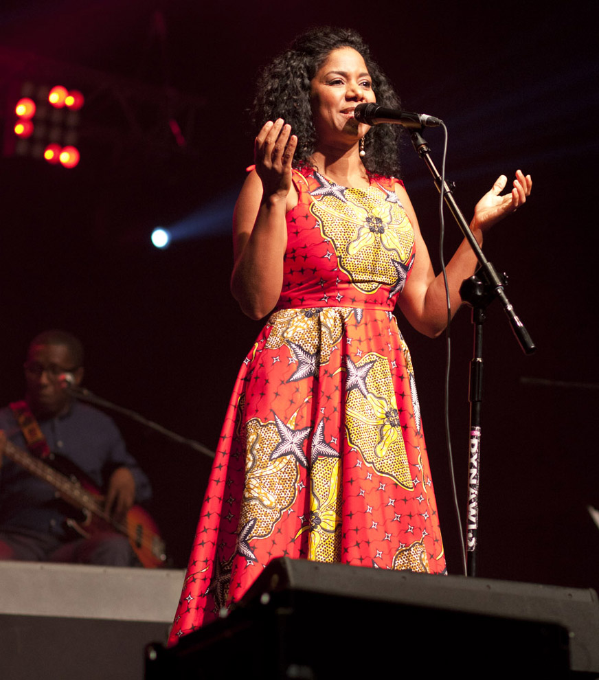 Nancy Veiria in Lodz, Klub Wytwórnia, Pic from FuninPoland.pl. The Picture was per the official press accreditation and permission of the concert's organizer.